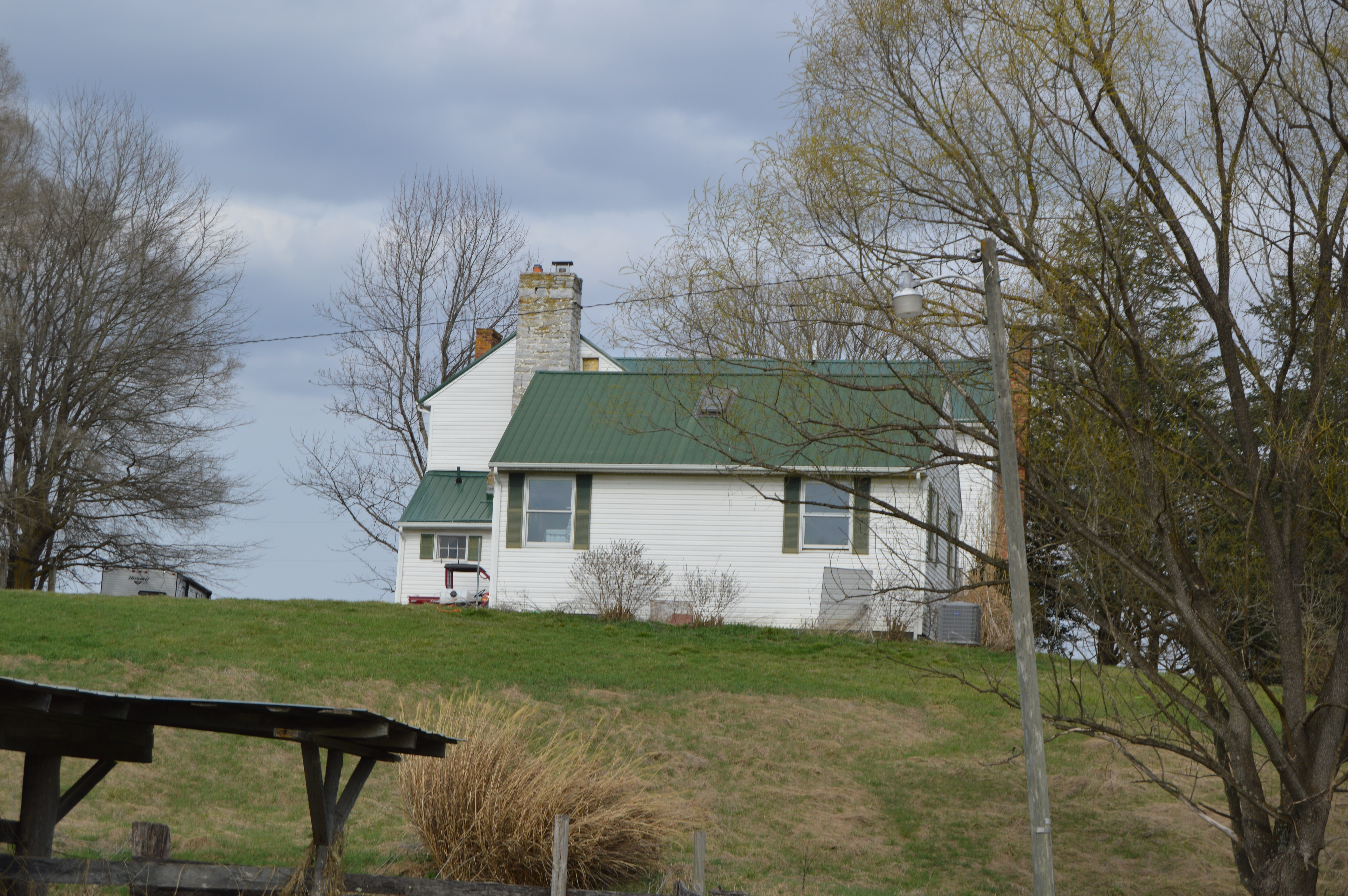 Rear of the John Hoge House, located on Neck Creek Road southwest of Belspring in Pulaski County, Virginia, United States. Built in 1826, the farmstead is listed on the National Register of Historic Places.